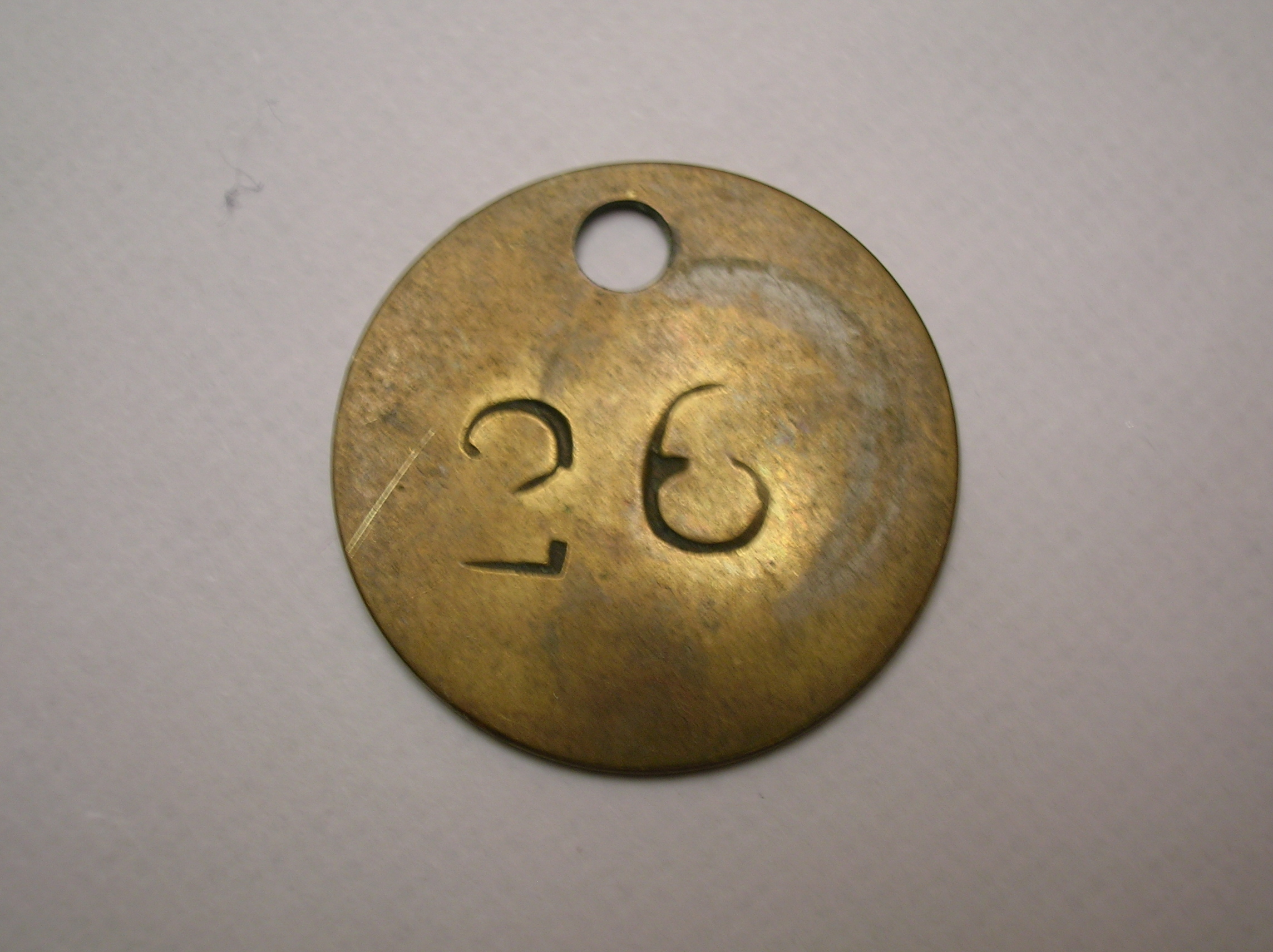 A single sided brass tally piece